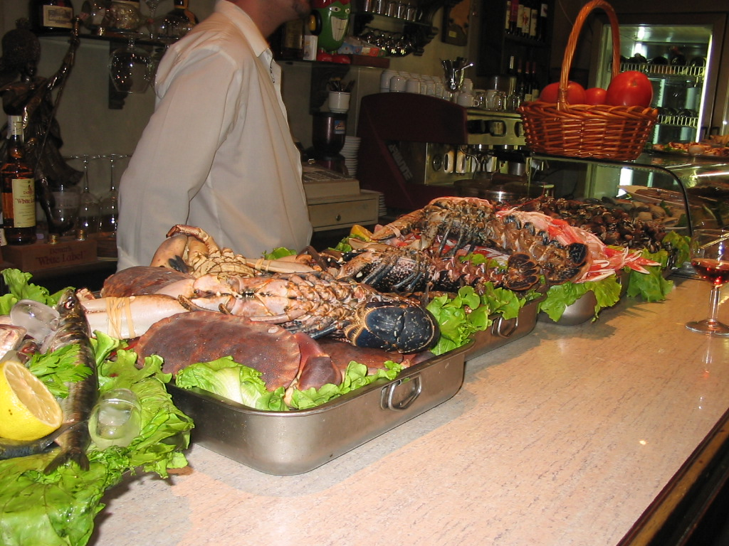 Food ready to be eaten in Barrio Humedo León , Spain